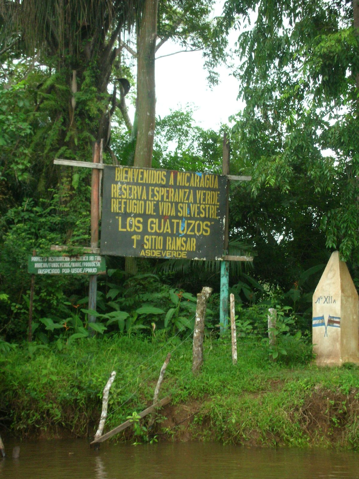 Border of Nicaragua with Costa Rica at Caño Negro; sign for Los Guatuzos reserve